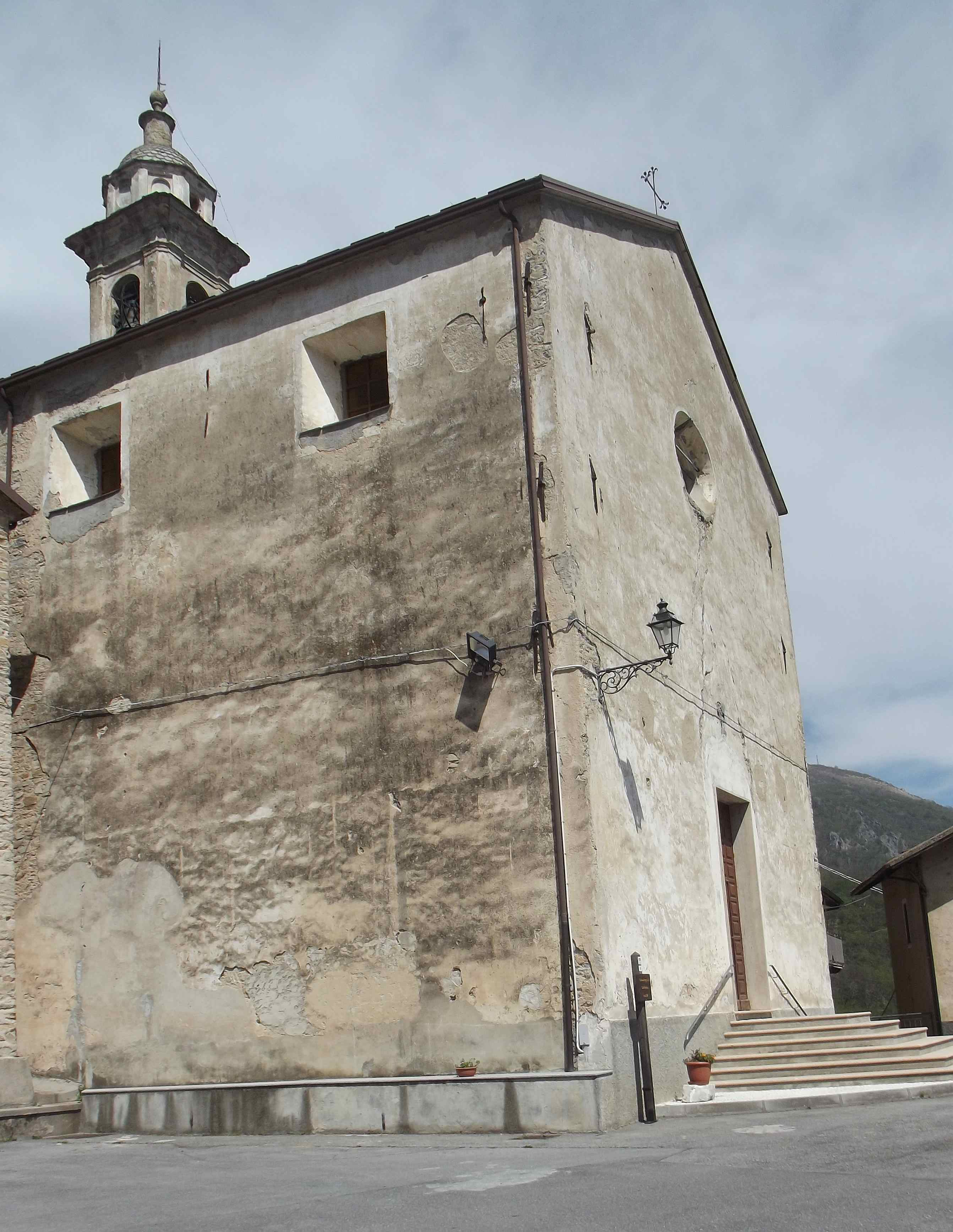 Caprauna (CN, Italy): the church